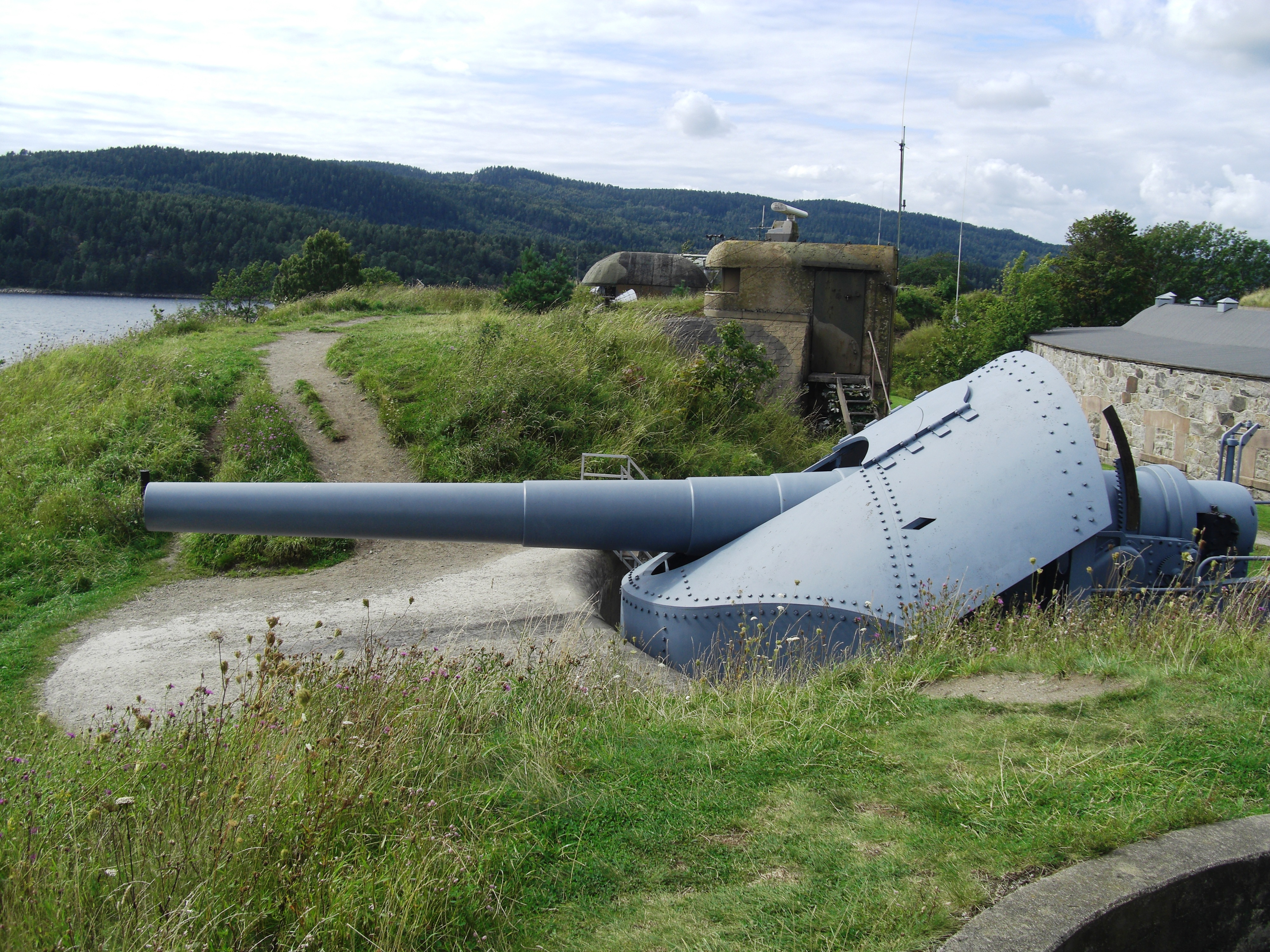 28 cm gun at Oscarsborg